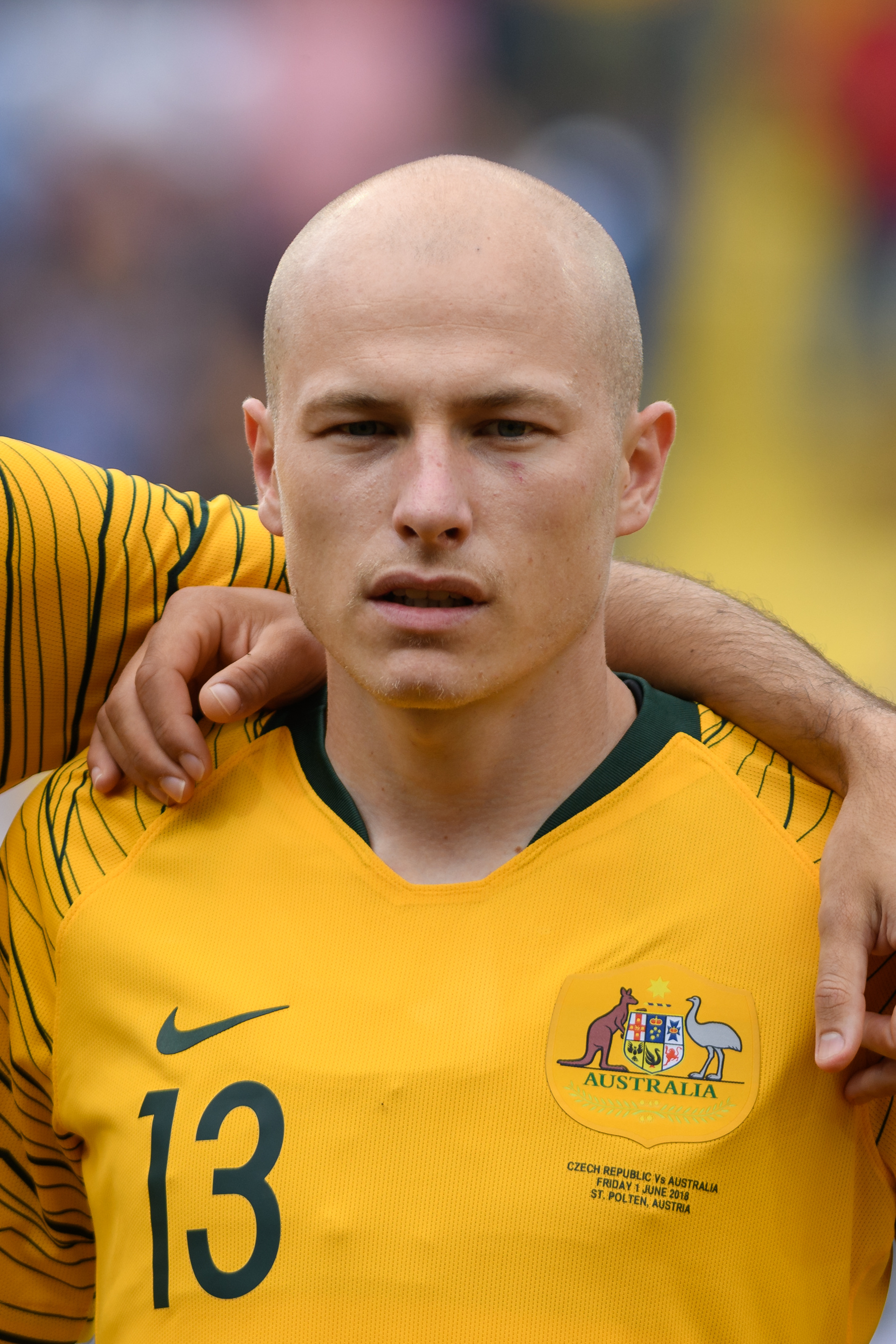 FIFA Friendly Match Czech Republic vs.Australia 2018/03/27. Picture shows Aaron Mooy (AUS).